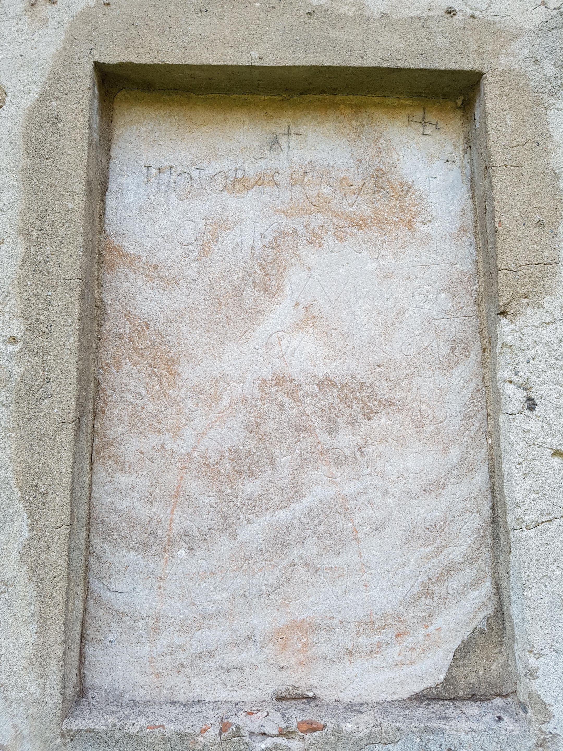 A roman plate on St Maria Maddalena Church wall, Burolo, Northern Italy